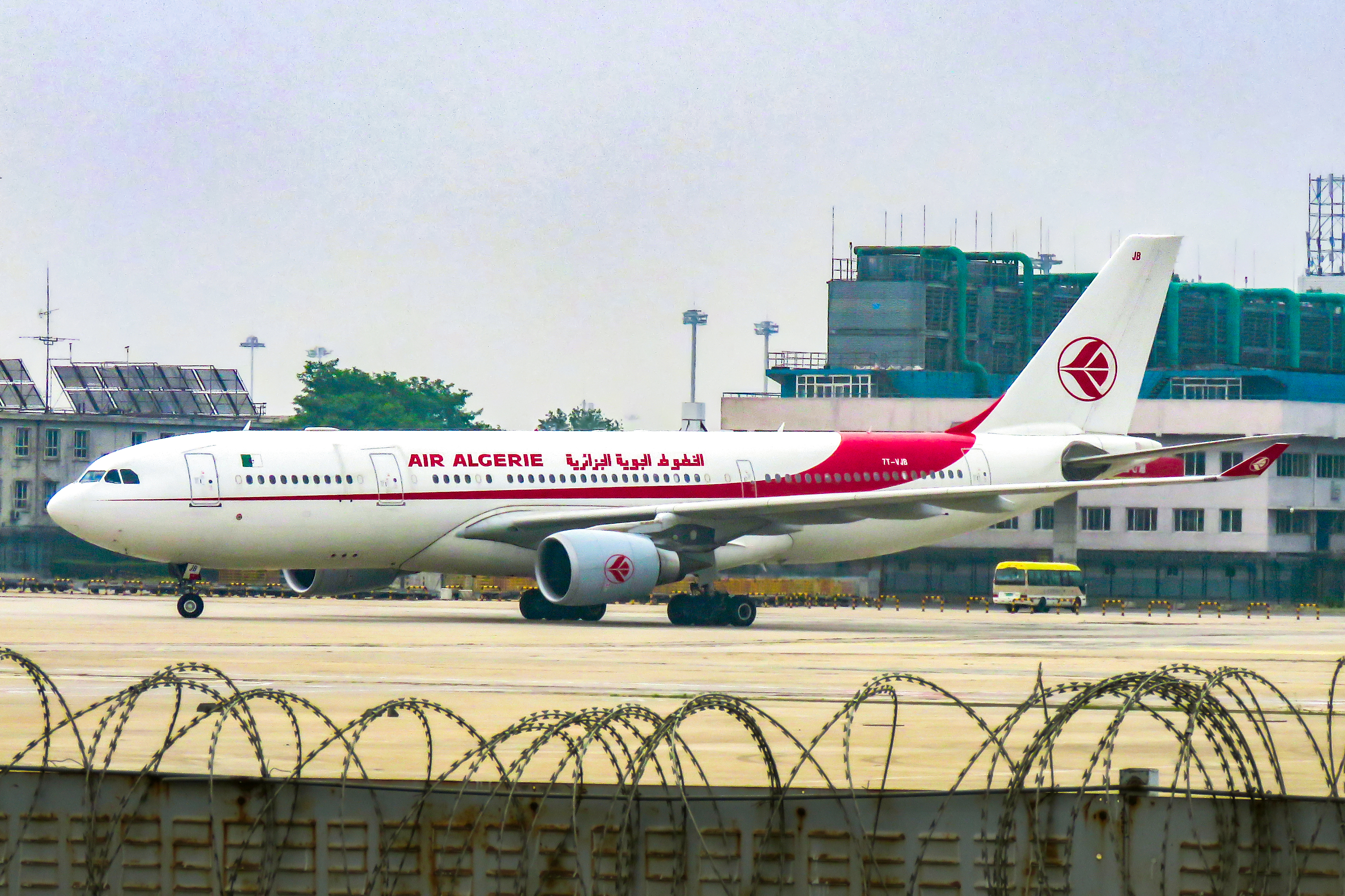 Air Algerie 3060 from Algiers, disrupted by B-8290.